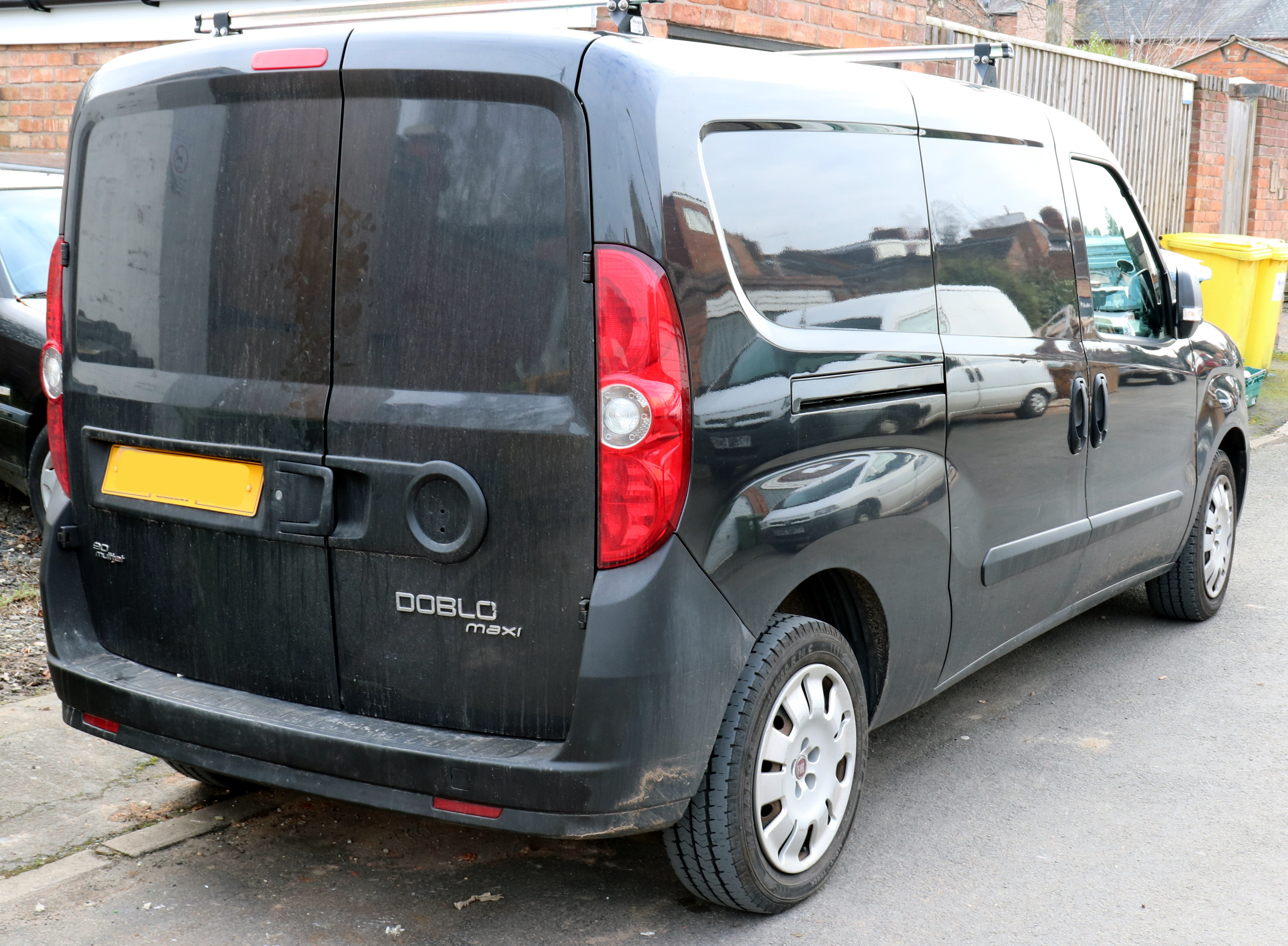 2013 Fiat Doblo 16V Multijet 1.3 Rear Taken in Leamington Spa